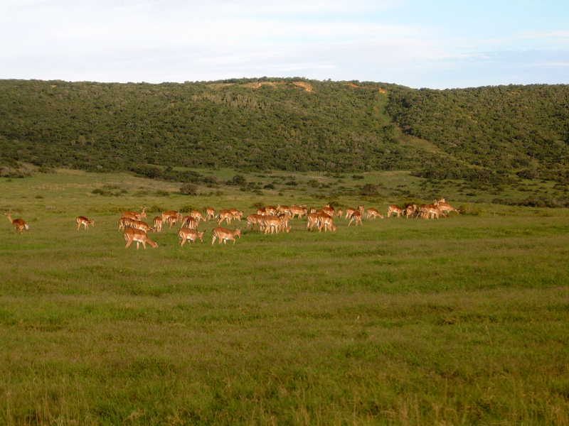 A herd of impalas at Shamwari Game Reserve, Eastern Cape, South Africa